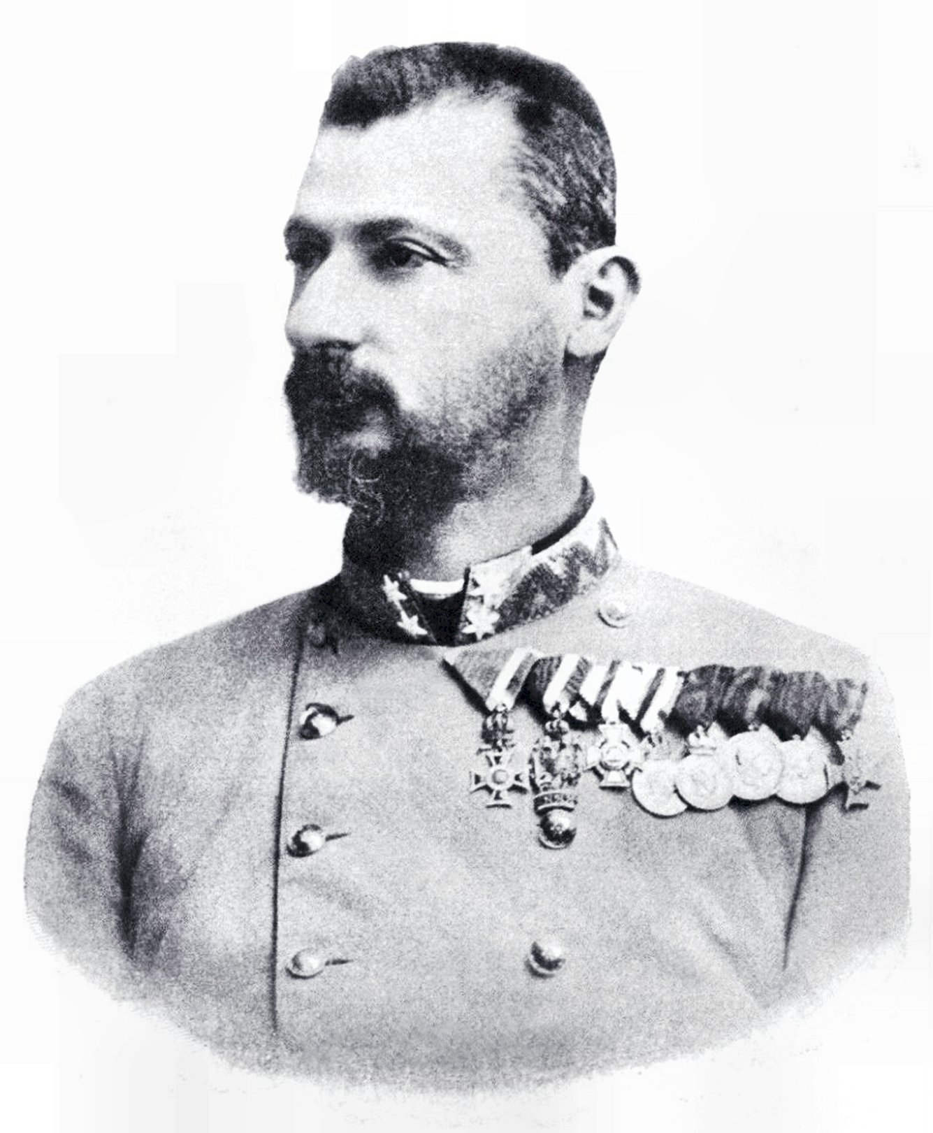 Portrait of Maximilian von Catinelli (1840-1907), Austrian general